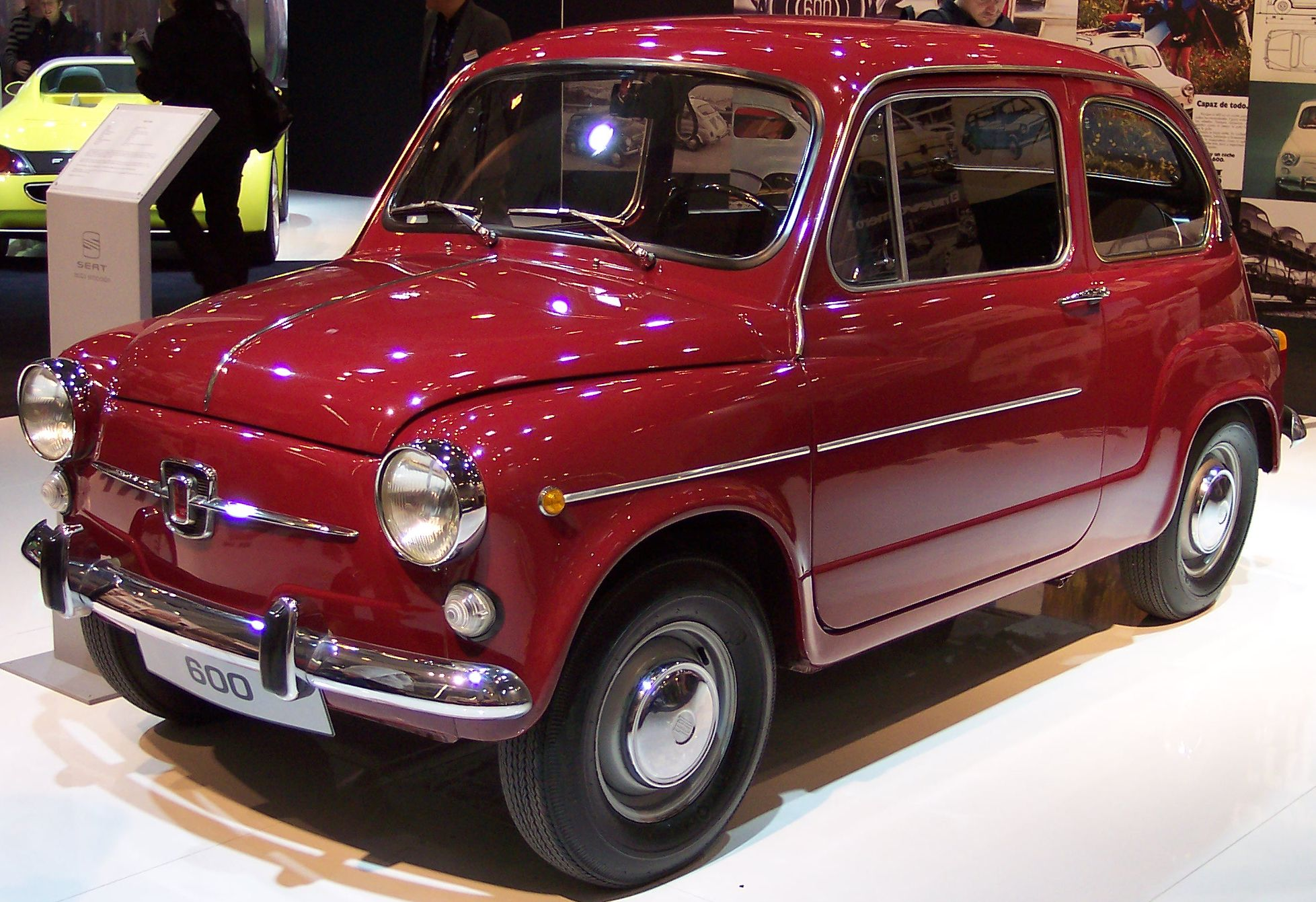 Seat 600